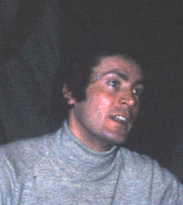 picture made during rehearsals in autumn 1968 Theater Oberhausen